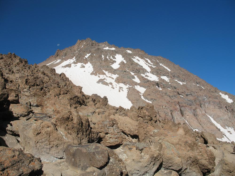 Mount Sabalan. Scape at 4100m.